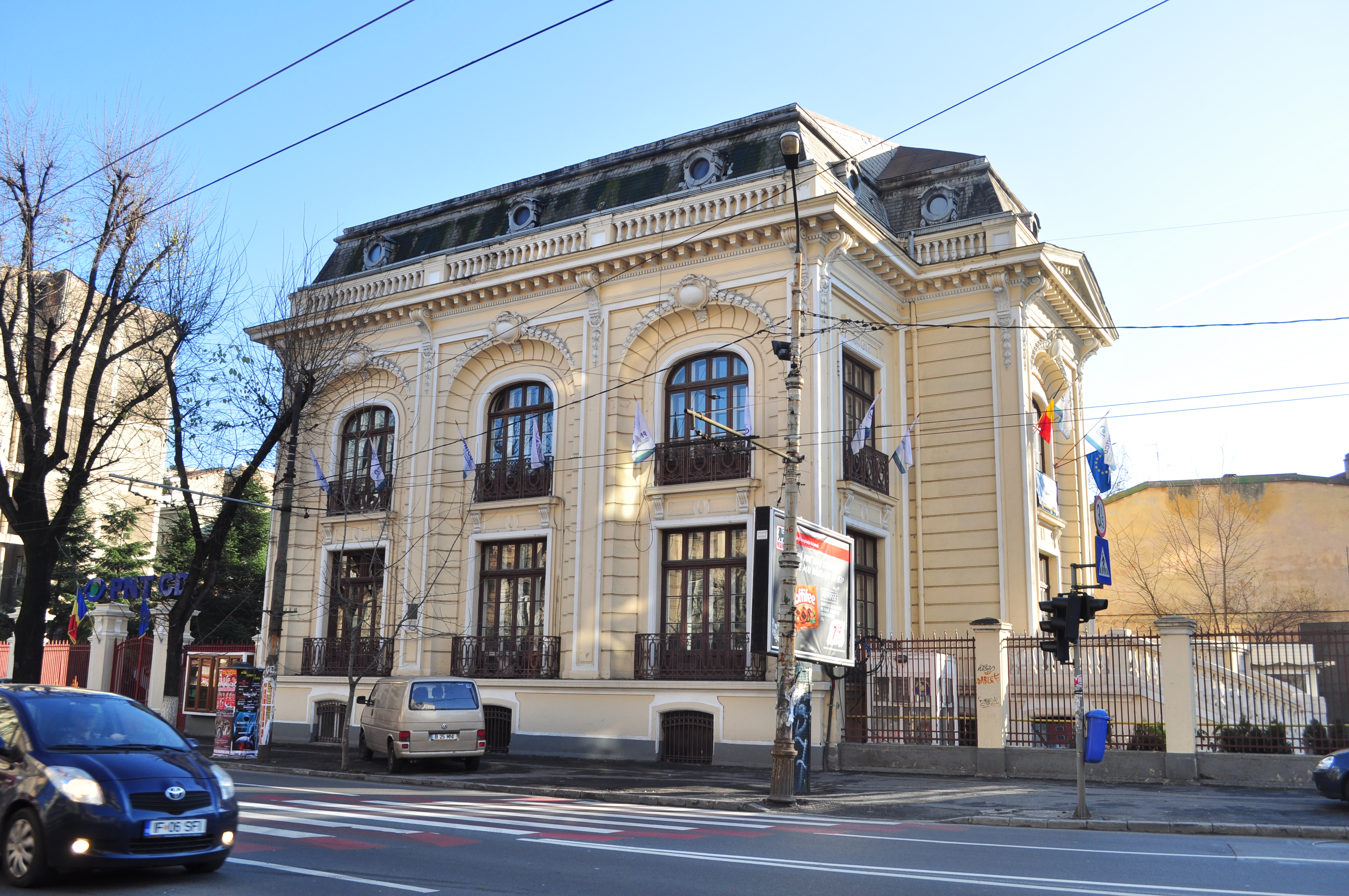 PNȚCD headquarters from Bucharest, B-dul Carol I, Romania.